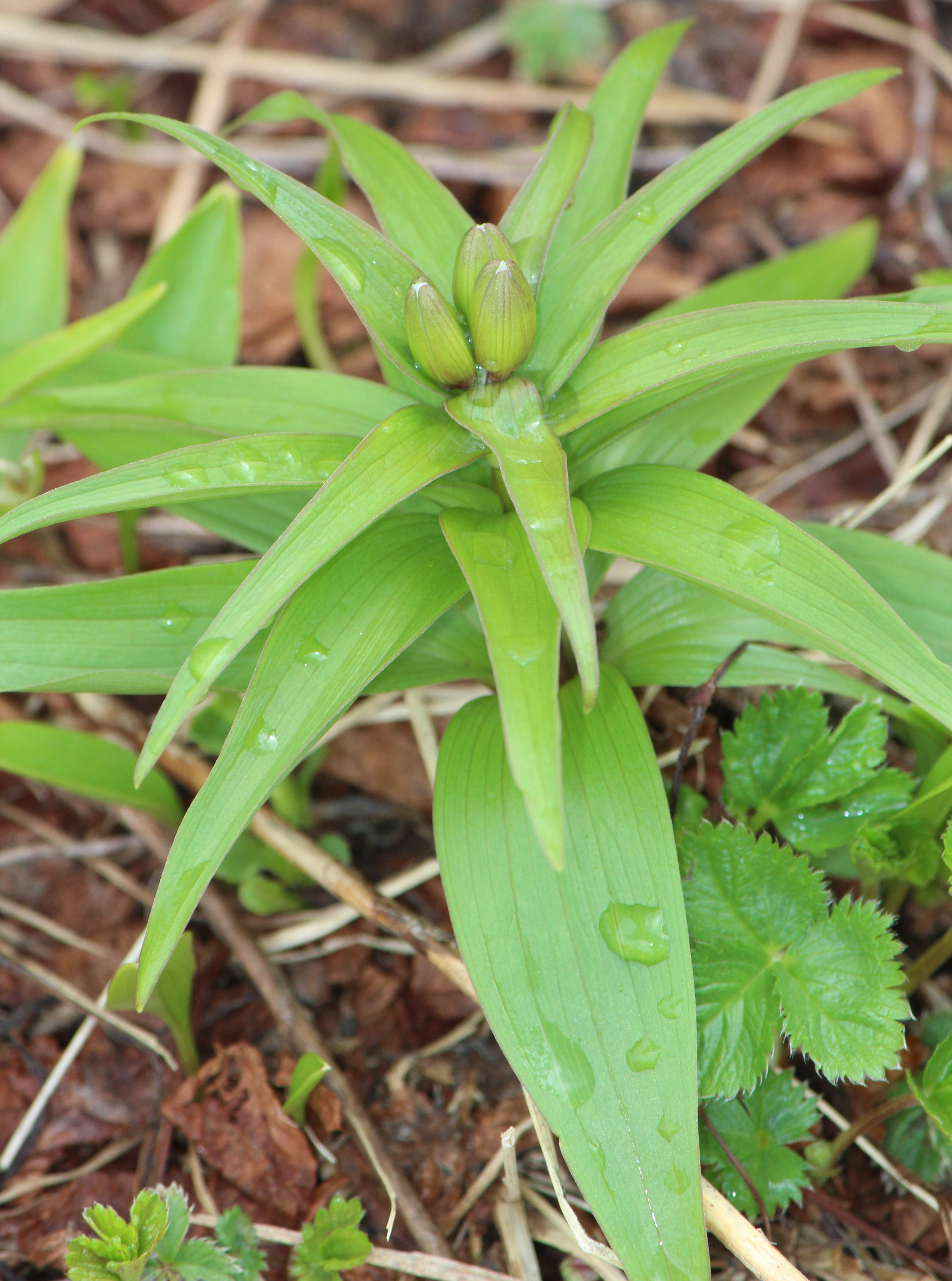 Fritillaria camtschatcensis (L.) Ker Gawl. var. keisukei Makino with three buds, in Mount Haku, Japan.